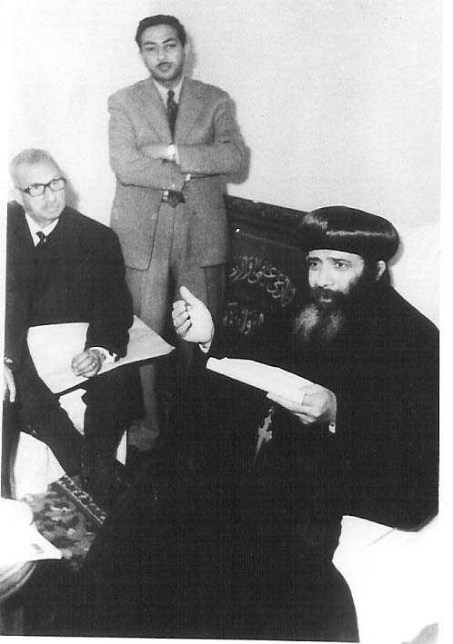 Pope Shenouda III discussing Tel Atrib excavations with Pahor Labib (seated) Chairman of the Committee and Dr Ghalil Mesiha a member.